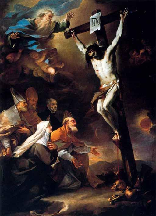 Painting of the Patron Saints of Naples (Baculus, Euphebius, Francis Borgia, Aspren, and Candida the Elder) adoring the Crucifix. Oil on canvas. 17th century.) Museo Nazionale di Capodimonte Native nameMuseo di CapodimonteLocationNaplesCoordinates40° 52′ 01.2″ N, 14° 15′ 01.9″ E Established1738Web pagemuseocapodimonte.beniculturali.itAuthority control : Q290549 VIAF: 153512283 ISNI: 0000 0001 2188 5096 LCCN: n79093843 GND: 4285175-0 SUDOC: 034327339 WorldCat institution QS:P195,Q290549 Galleria Napoletana (inv. S.N.) Quadro in prestito al Museo di Capodimonte dalla chiesa di Santa Maria del Pianto (Napoli)